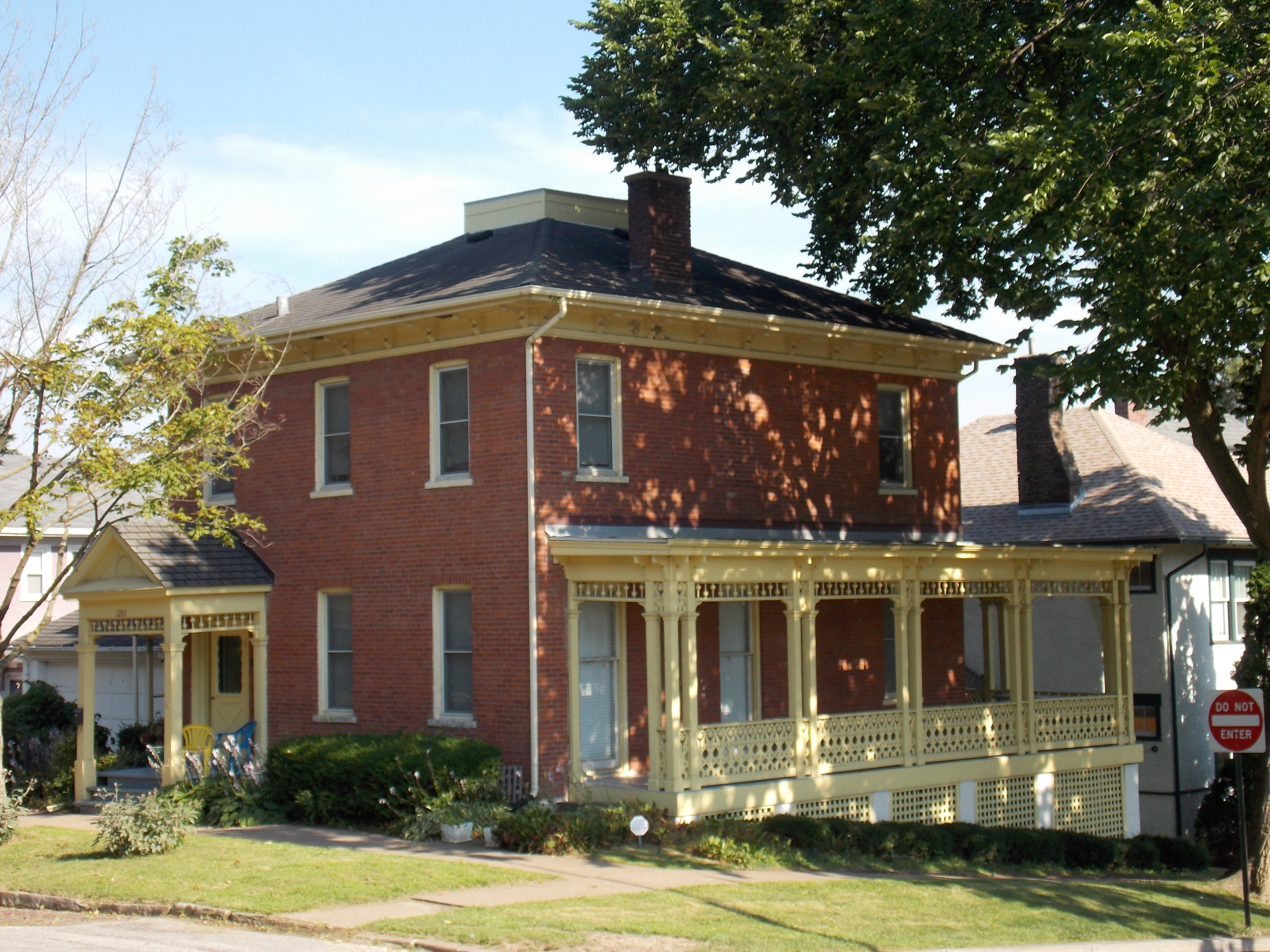 The Nathan Rambo House is a contributing property in the Bridge Avenue Historic District, Davenport, Iowa.